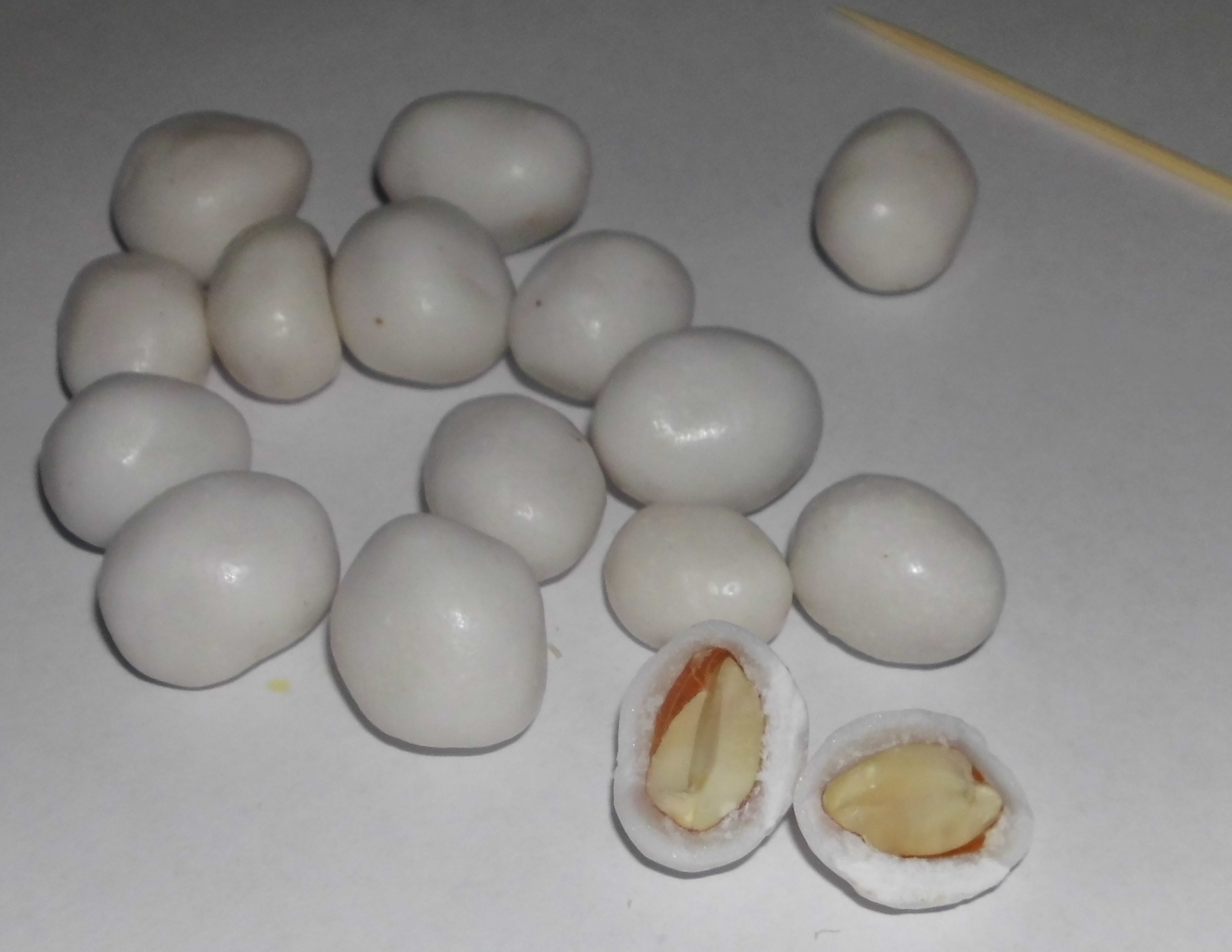 Dragee "Arakhis v sakharnoy glazuri" (peanut in sugar glaze)